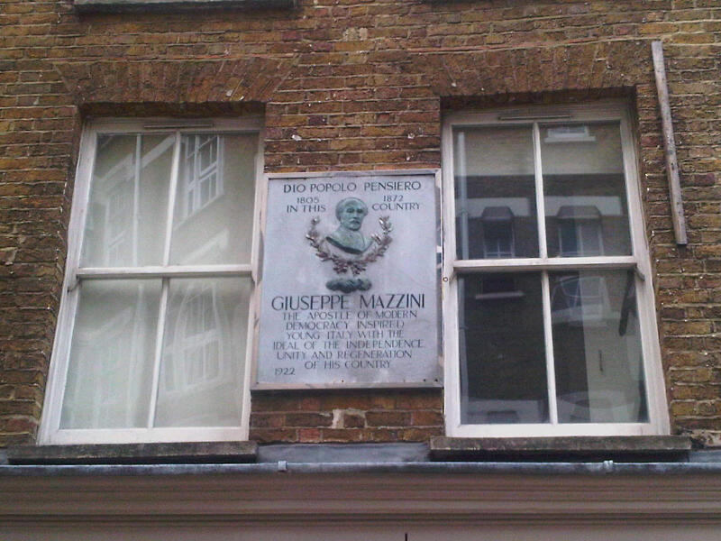 Plaque in honour of Giuseppe Mazzini, Laystall street, London EC1.